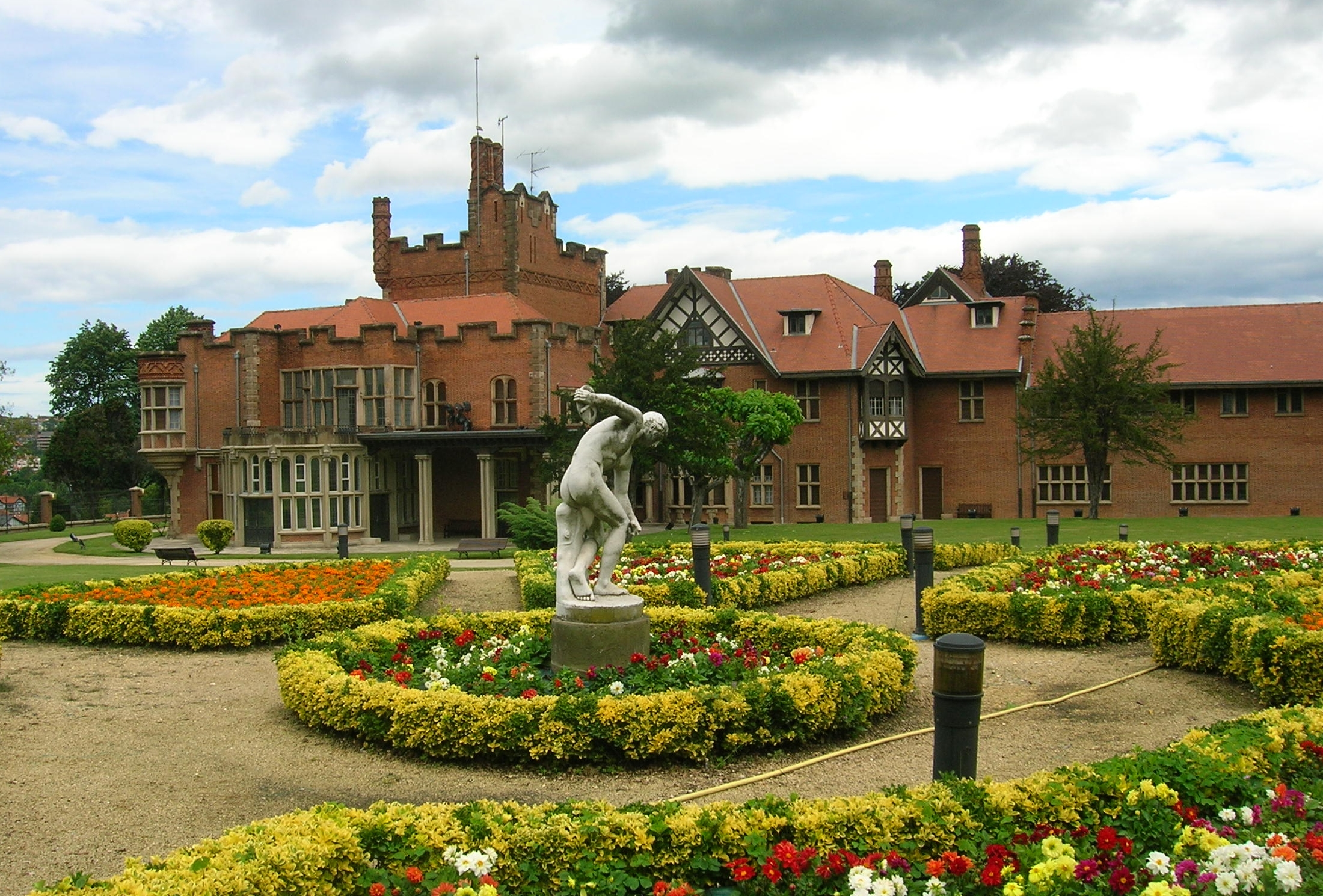 Back side and gardens of Artaza Palace, in Leioa, Biscay.